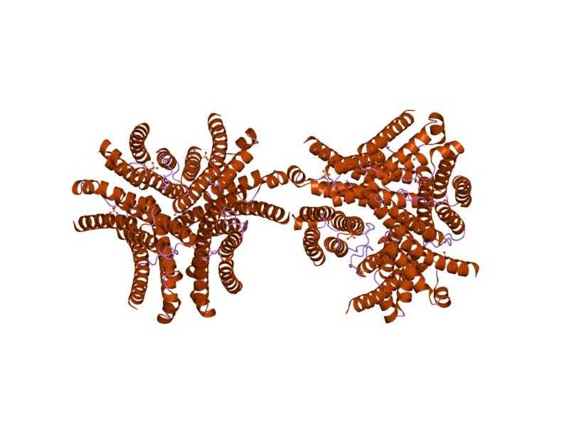 Cartoon representation of the molecular structure of protein registered with 1q0d code.